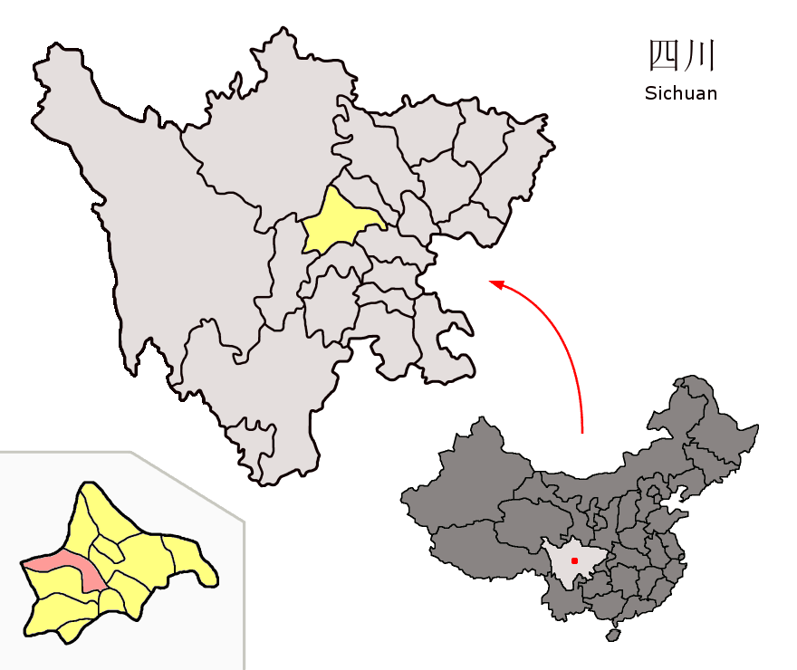 Location of Chongzhou City (pink) and Chengdu Prefecture (yellow) within Sichuan province of China Map drawn in september 2007 using various sources, mainly : Sichuan province administrative regions GIS data: 1:1M, County level, 1990 Sichuan Counties map from